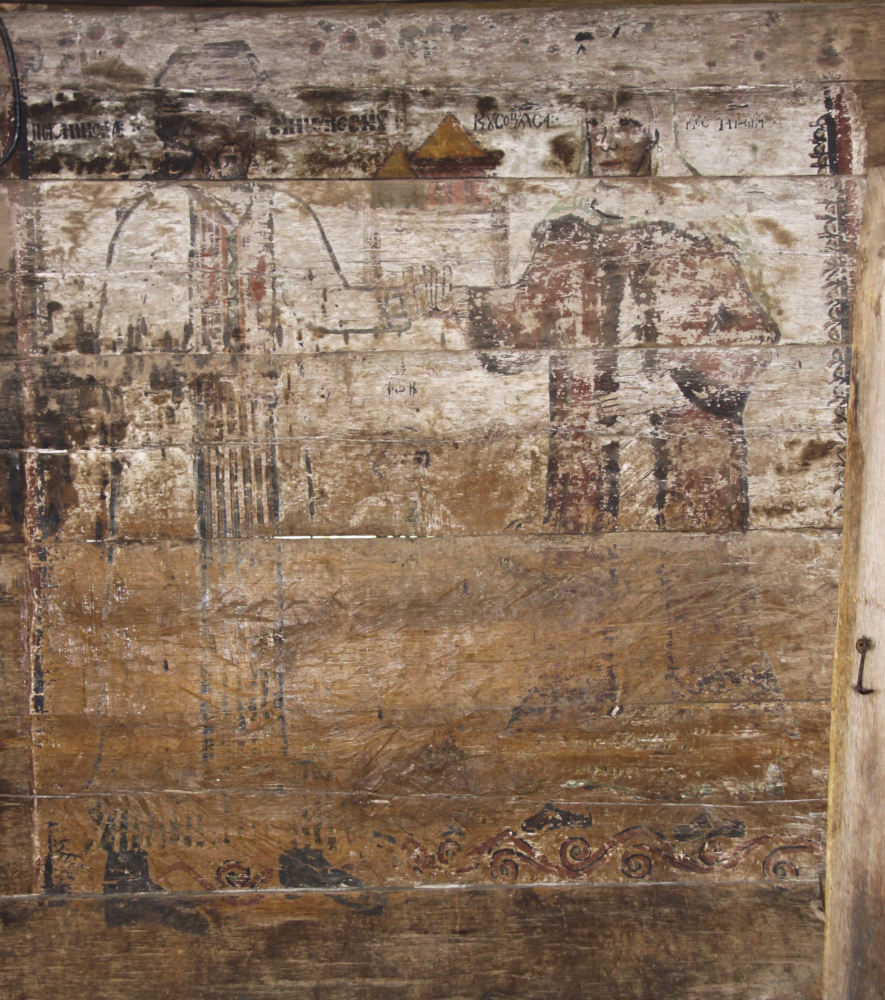 Olteanca-Sânculeşti, Vâlcea county, Romania: the wooden church.